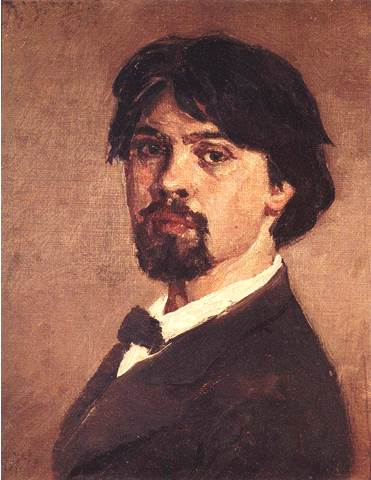 Self-portrait (alternate version)